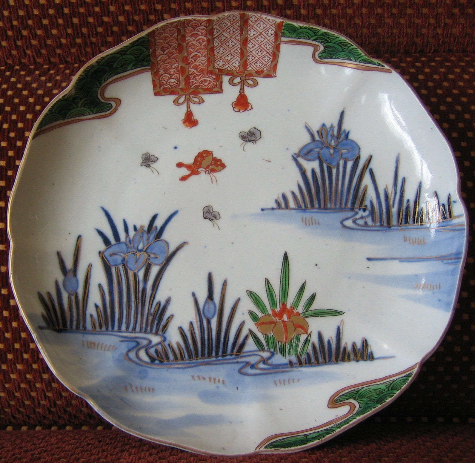 Japanese plate from the Meiji period (porcelain)